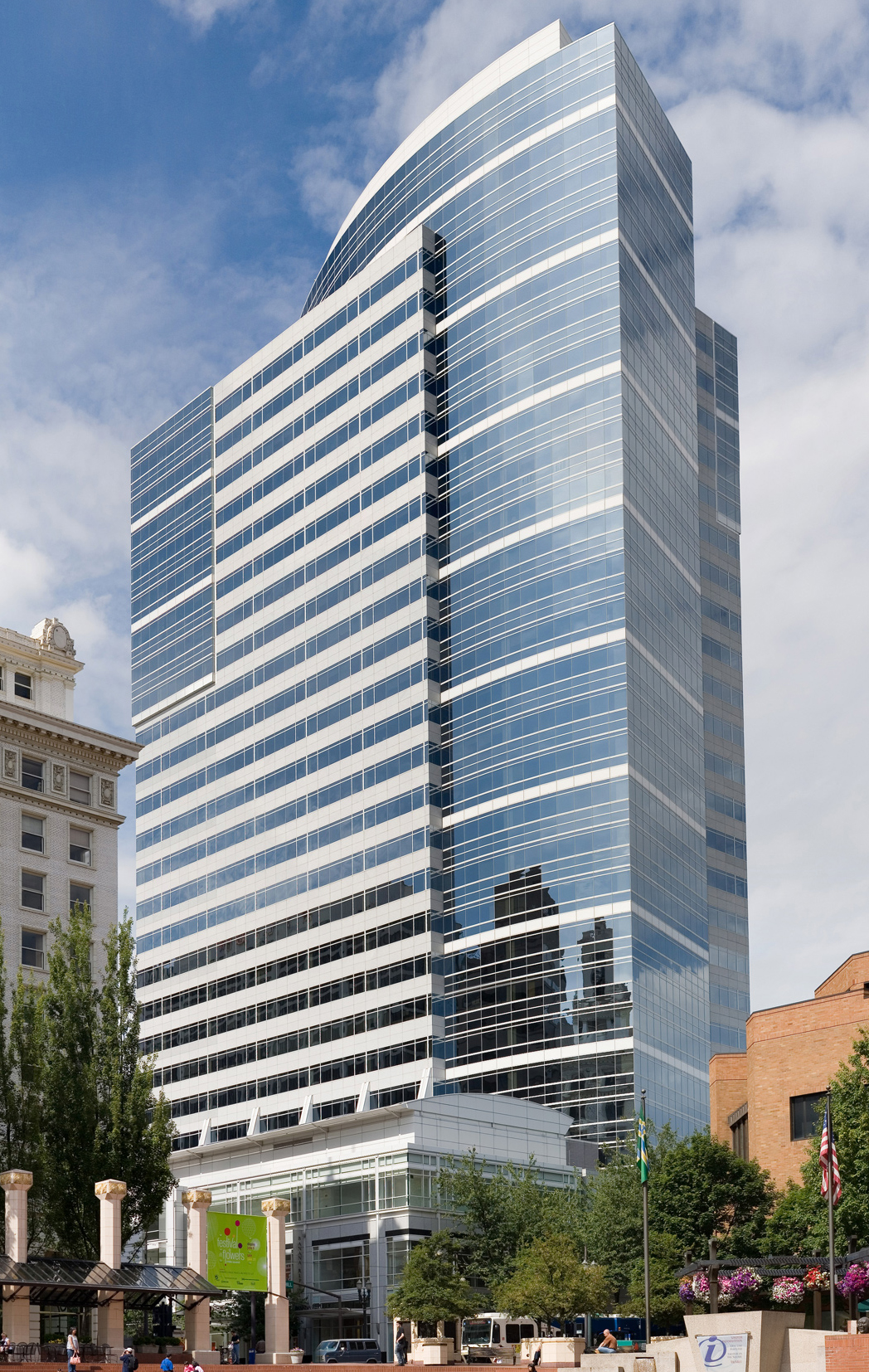 Fox Tower (2000) - Portland, Oregon - July 1, 2007